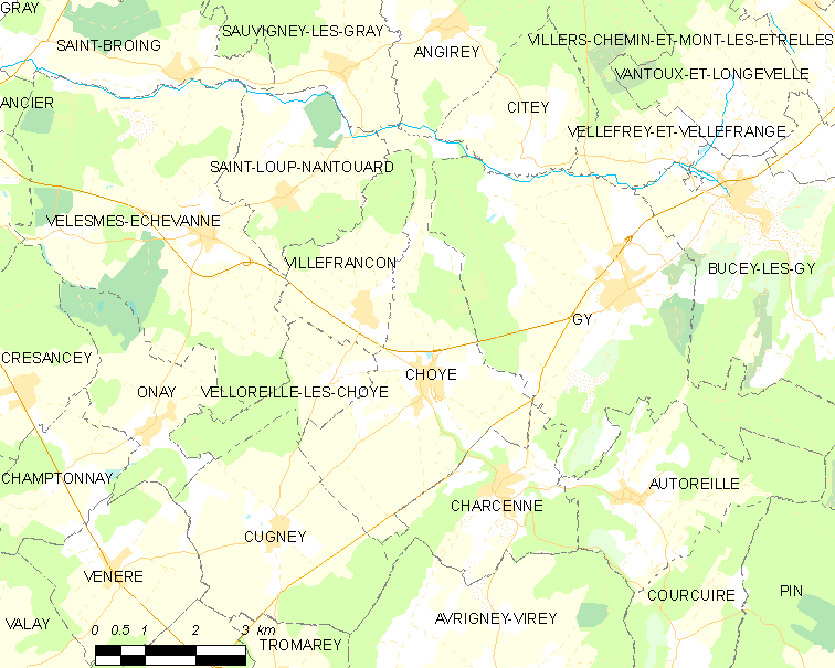 Map of French municipality